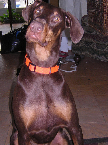 red doberman